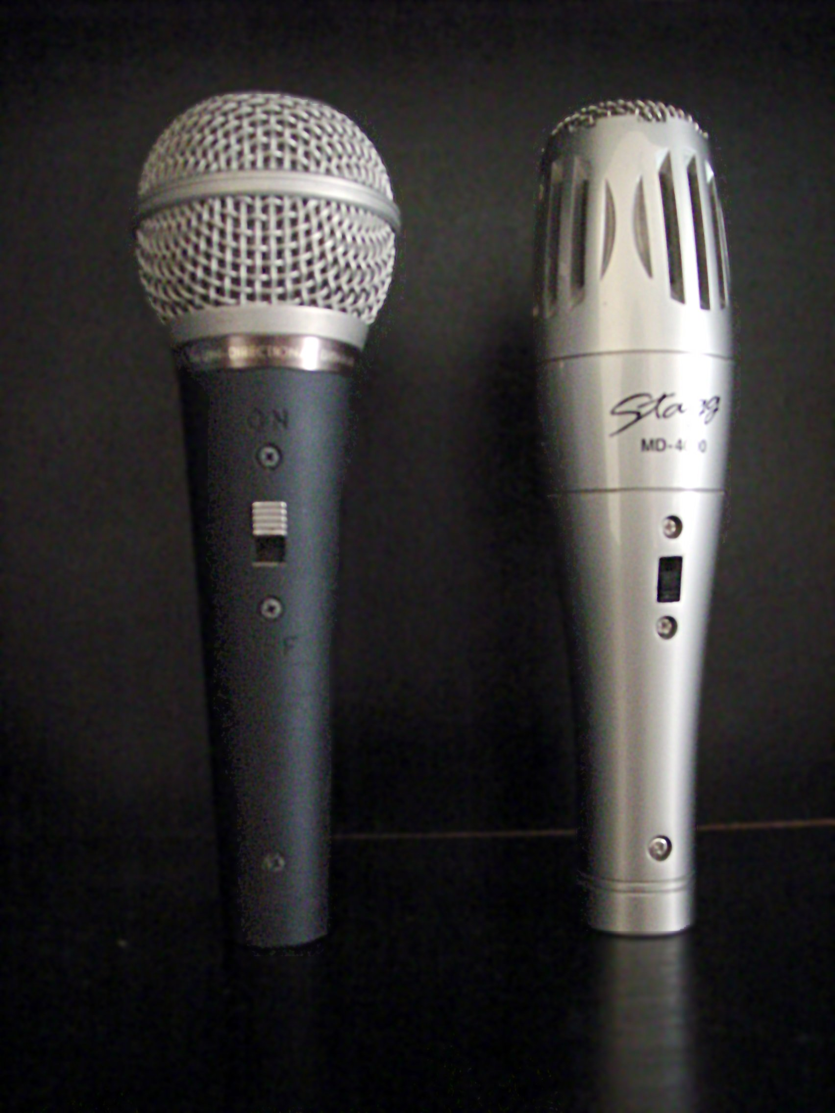 Two microphones.